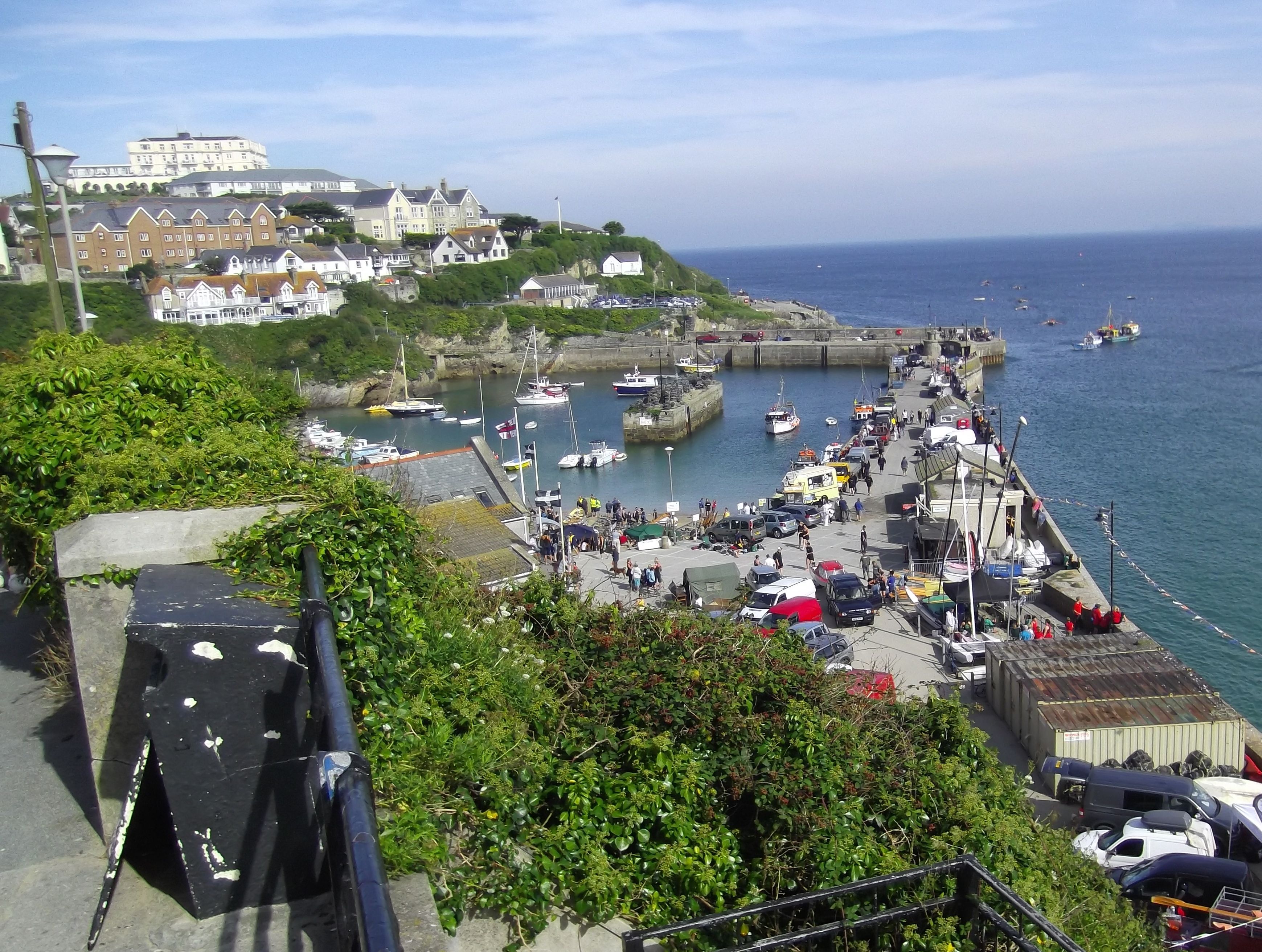 Newquay Harbour Cornwall England in 2013 looking NW